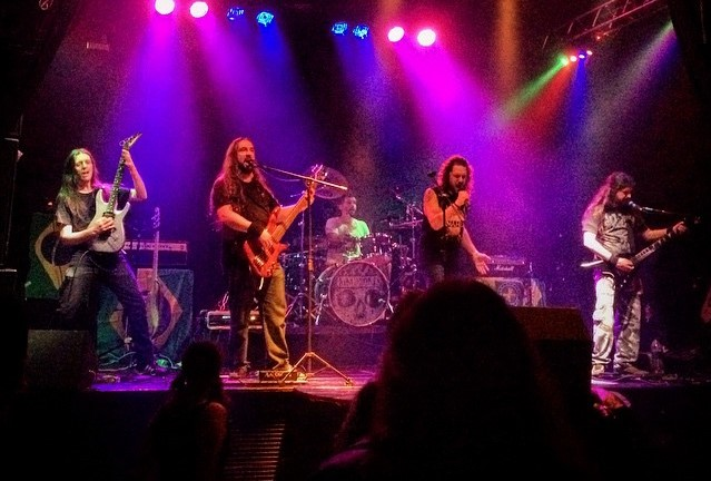 Brazilian heavy metal band Armahda live in 2015. From left to right: Alexandre Dantas, Paulo Chopps, João Pires, Maurício Guimarães and Renato Domingos.